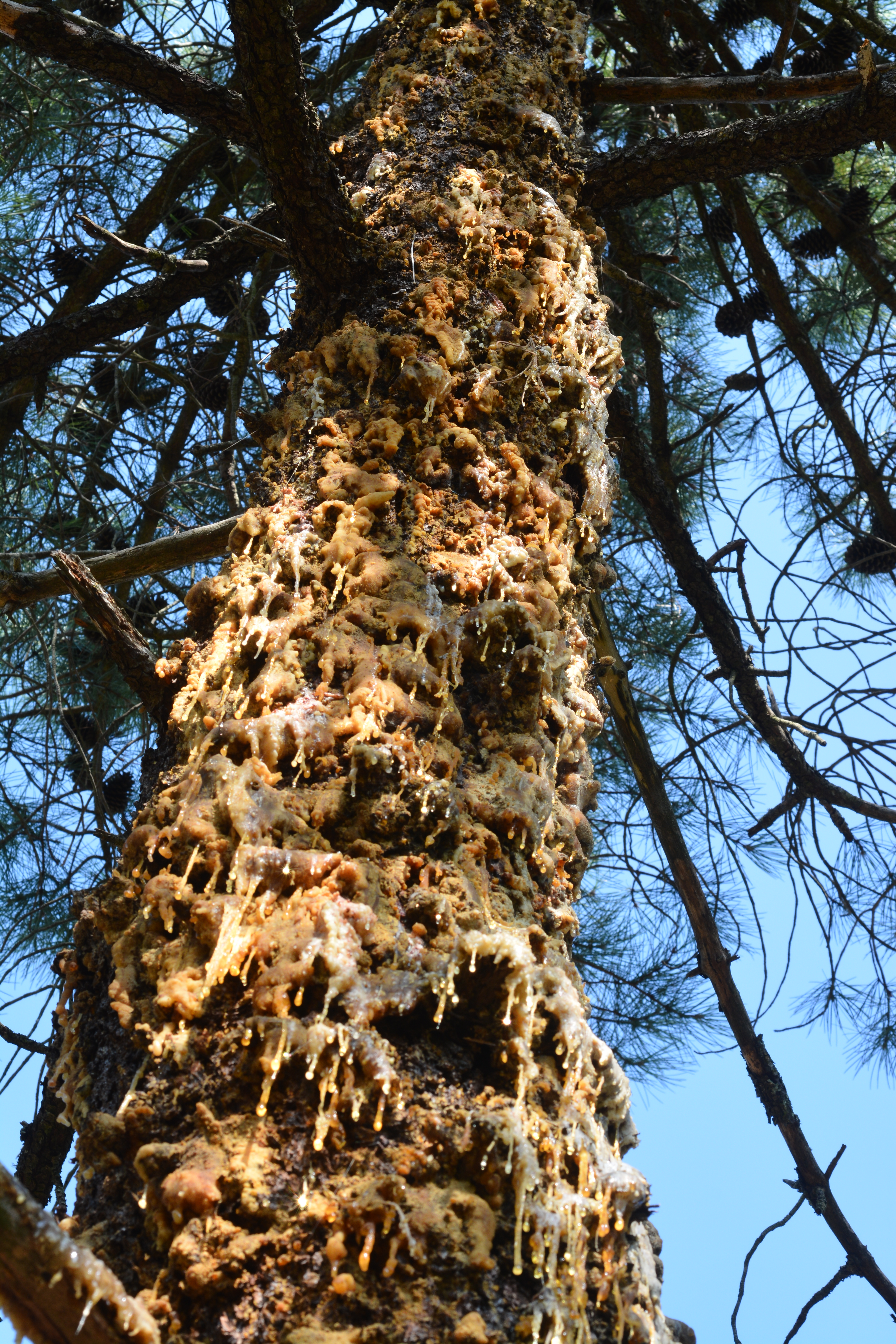 Resin extruding from the trunk of Pinus pinaster. Caused by Dioryctria sylvestrella (new pine knot-horn, pyrale du tronc - Lepidoptera Pyralidae)